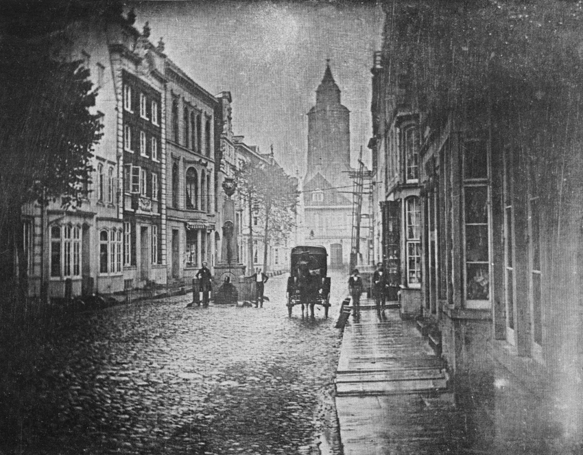 Probably the oldest preserved photo (daguerreotype) of Bremen (Germany), showing the street Obernstraße in 1843, looking towards the Marktplatz (the “marketsquare”). In the background the old stock exchange and Bremer Dom (the “Bremen cathedral”).